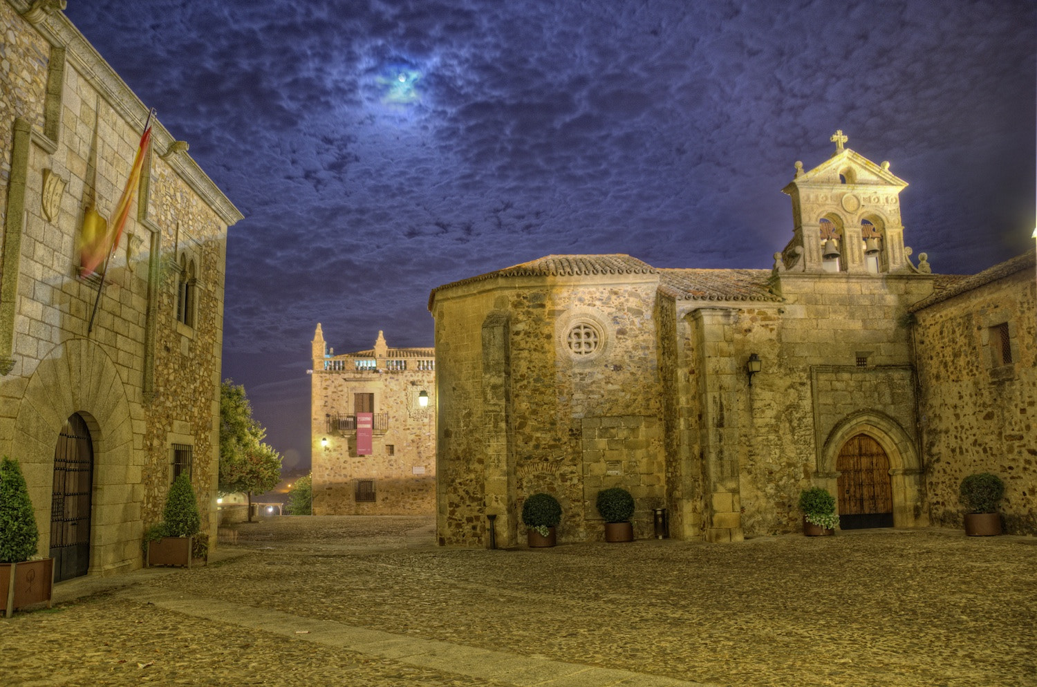 500px provided description: Old town of Caceres, Spain. [#old ,#town ,#caceres]